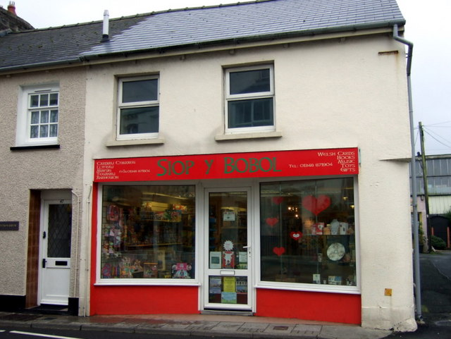 Siop y Bobol. Ardderchog! Always nice to see something new opening in the town and this 'People's Shop' offering Welsh language merchandise, with an emphasis on children's books and toys,is especially welcome following the closure of the previous Welsh language outlet 290645.